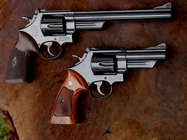 Model 29 .44 magnum